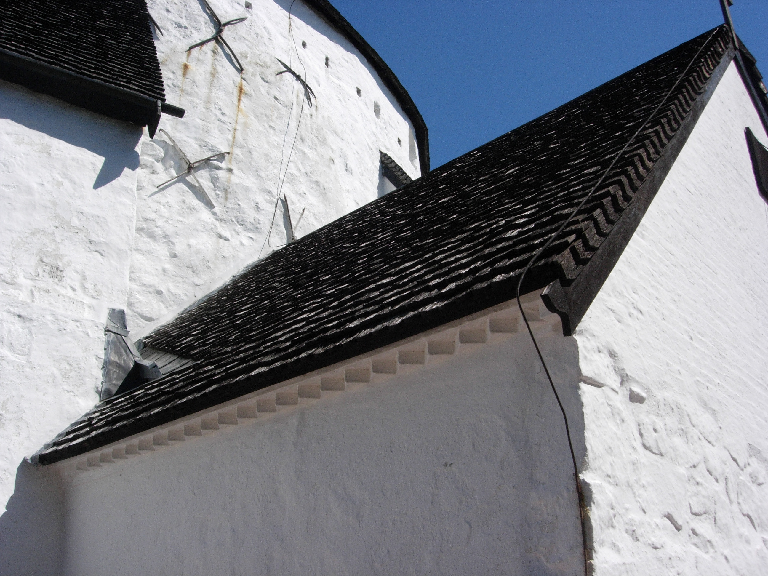 Østerlars Kirke, Bornholm, Denmark. Roof covered with wood shingles.